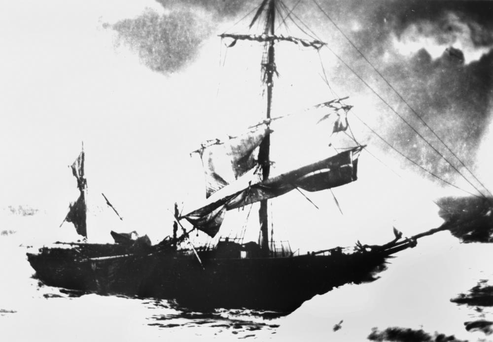 Noisiel was beached during a storm